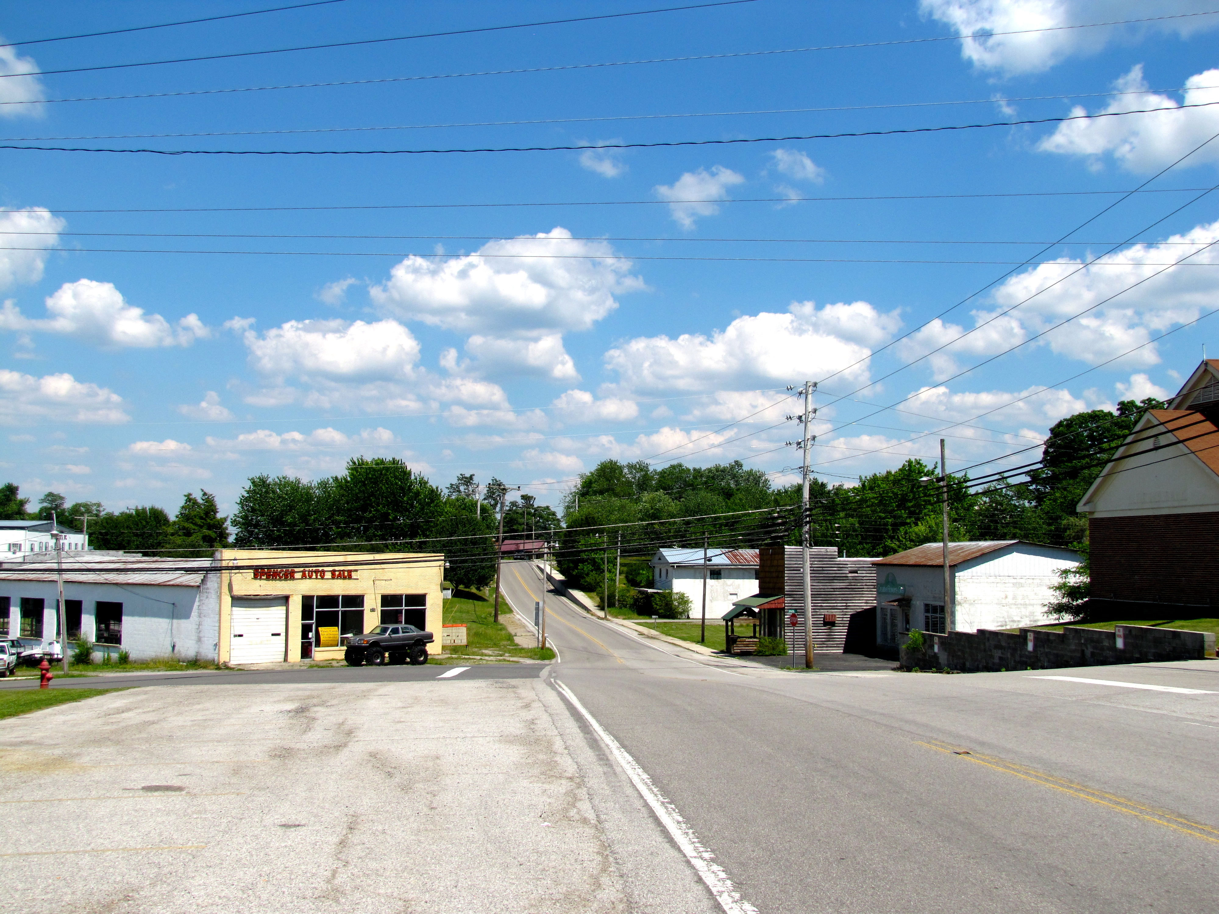 College Street (Tennessee State Route 30) in Spencer, Tennessee, United States.